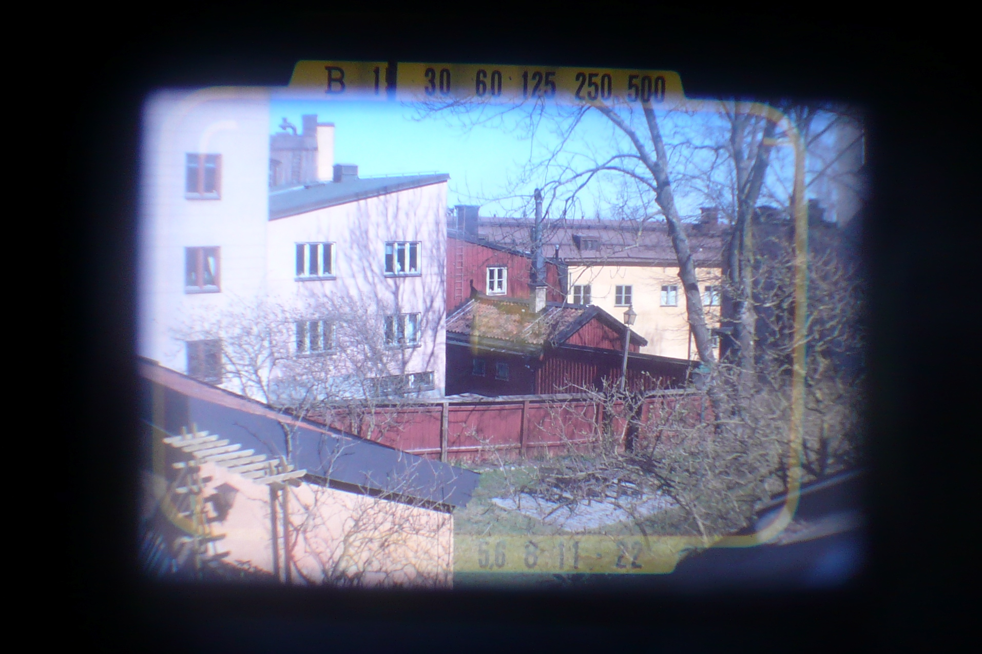 Office view through my rangefinder